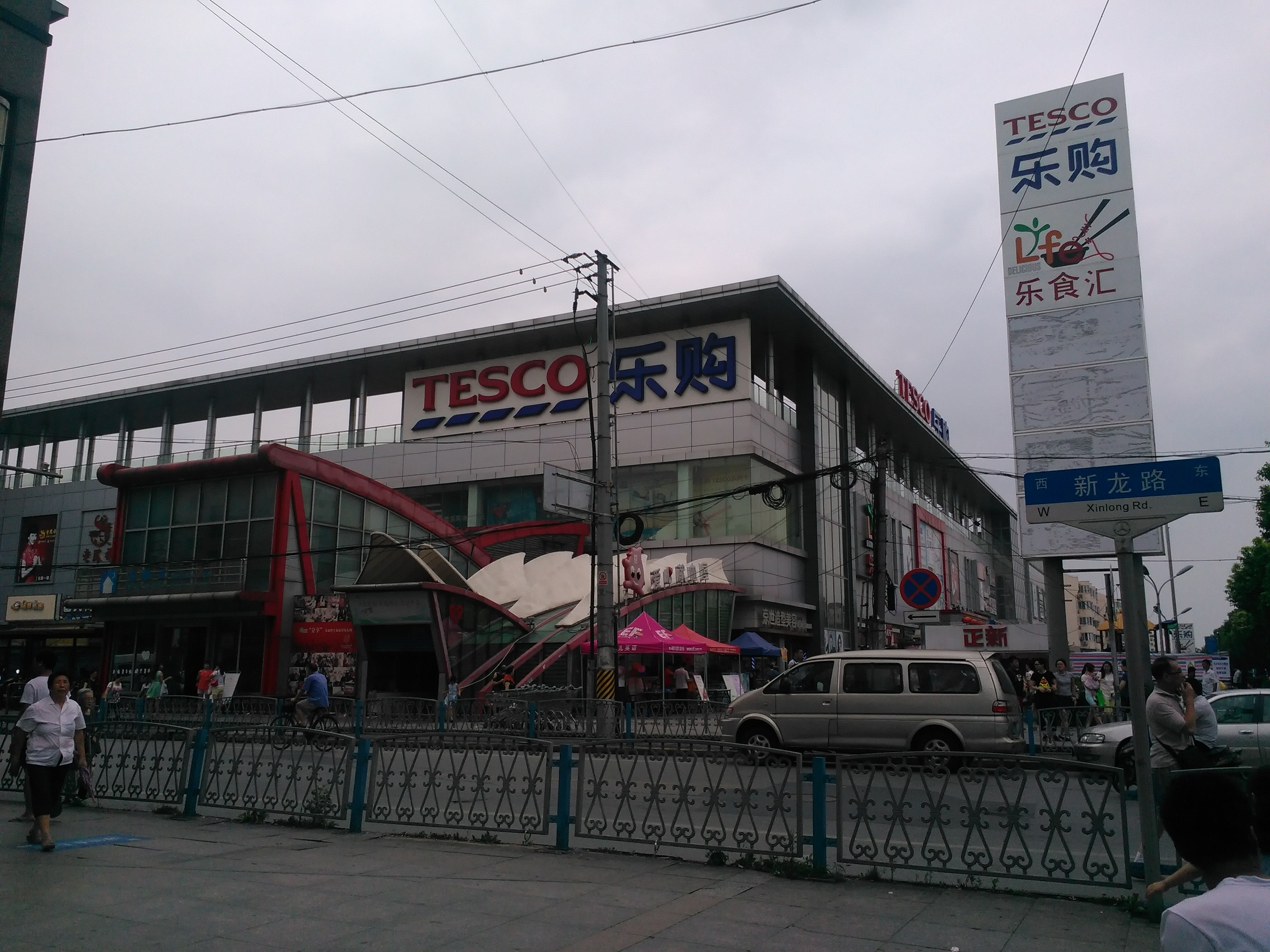 Tesco Shanghai Qibao